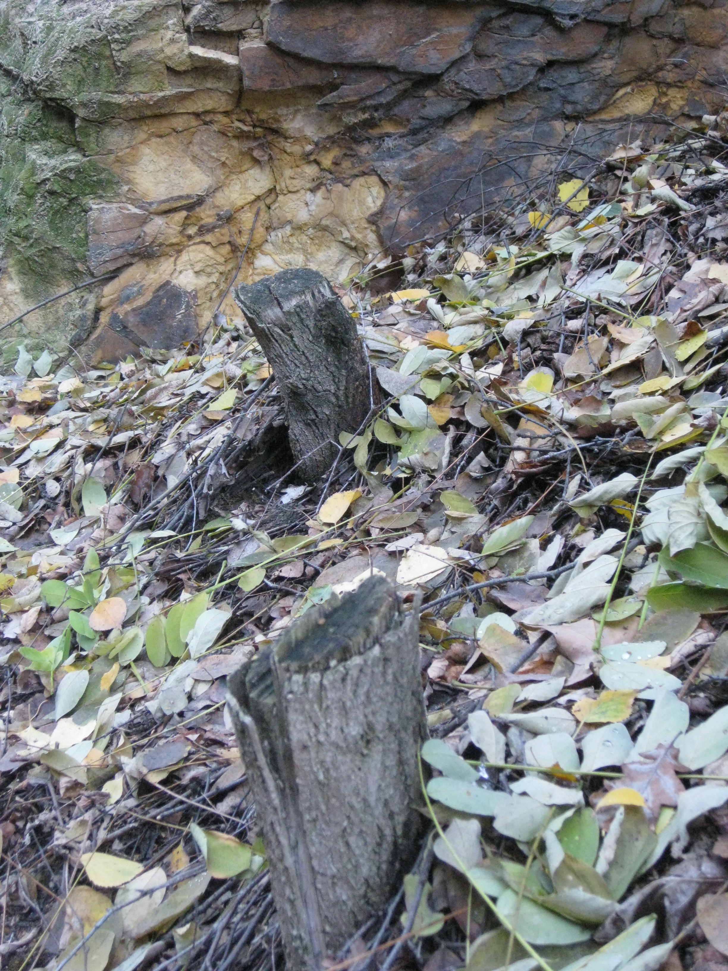 National monument Motolský ordovik in Prague, Czech Republic